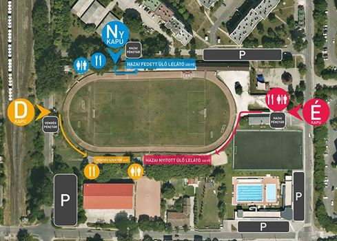 Aerial photograph. Map of the stadium for all visitor regarding visit policy from 2016 summer